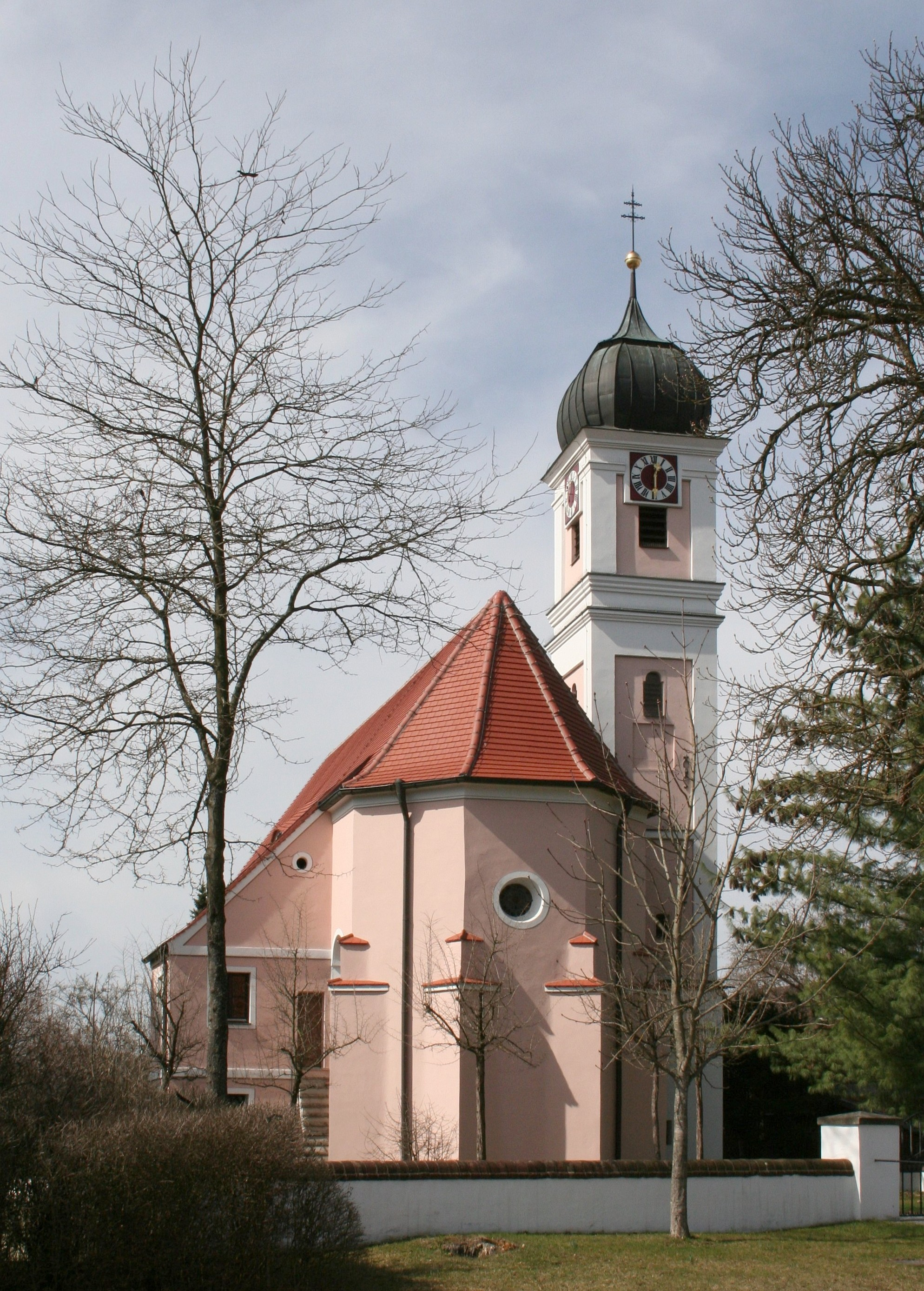 church St. Ulrich in the former village Hürben, today the eastern part of the town Krumbach (Schwaben)